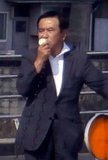 Kōji Satō, Member of the House of Councillors, performed street oratory in Fukuyama City, Hiroshima Prefecture on June 17, 2013.